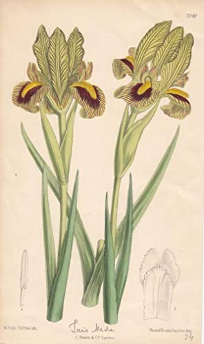 Iris meda, a native plant of Persia (now Iran). Hand-coloured botanical illustration drawn by Matilda Smith and lithographed by J.N. Fitch then published in Joseph Dalton Hooker's "Curtis's Botanical Magazine," 1889